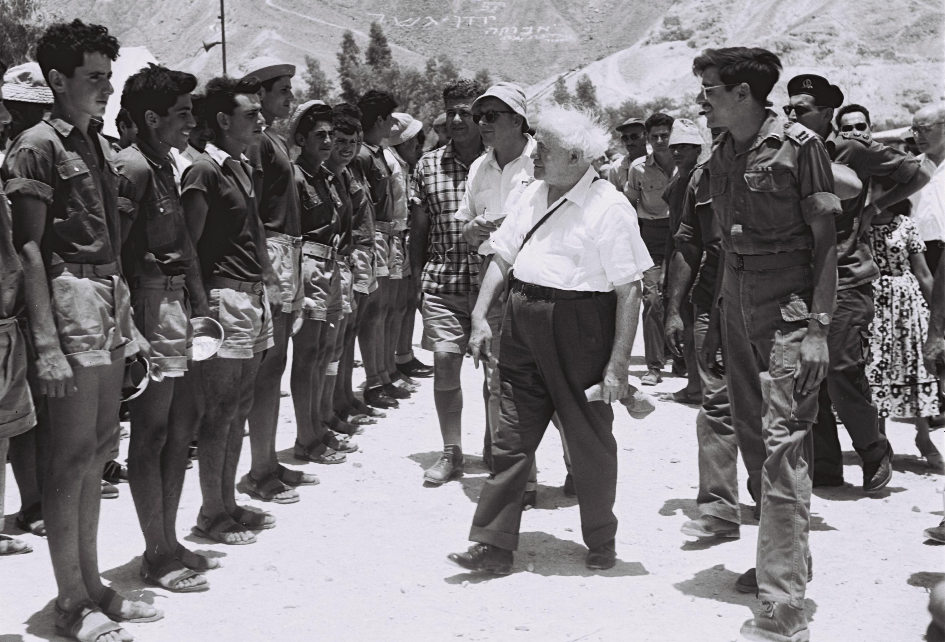 Ben Gurion visiting Gadna base in Beer Ora